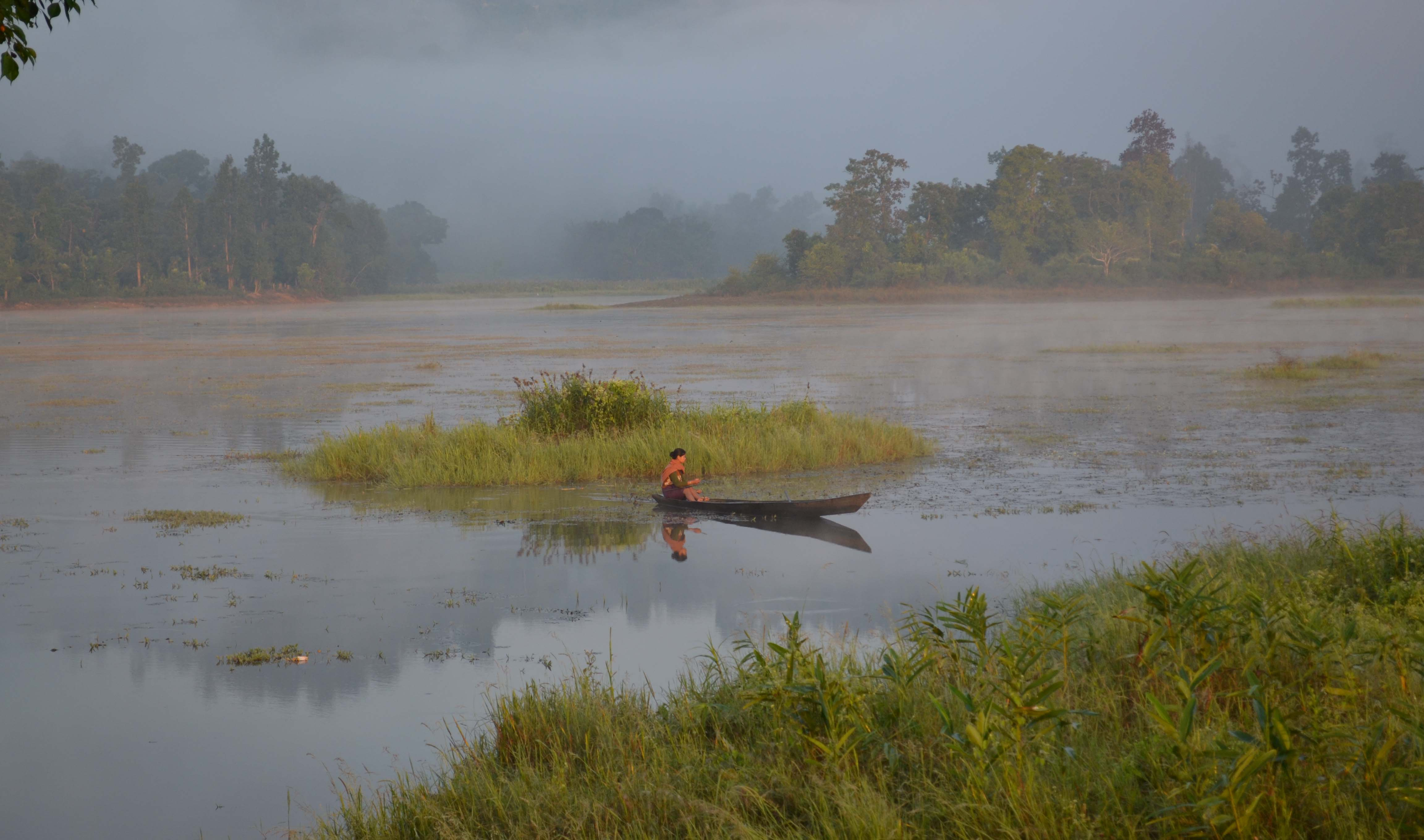 A woman fishing at Chandubi Bil in the morning time with boat.